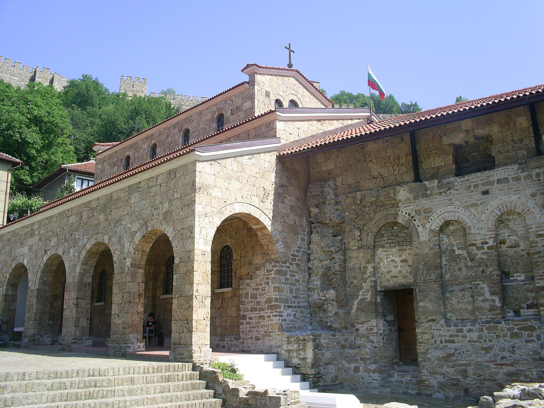 Church SS. Forty Martyrs Church in Veliko Tarnovo, Bulgaria, a Bulgarian national cultural monument.